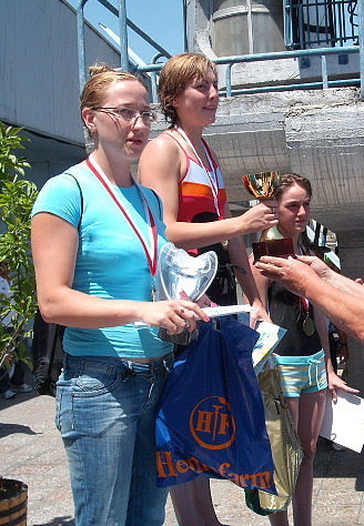 1. Nastya Grivach (Laguna Vere, Tbilisi, Georgia) – 1.41.9; 2. Natalya Filina (Baku, Azerbaidjan) – 1.49.0; 3. Gvanca Khinchakashvili (Gori, Georgia) – 1.49.60.